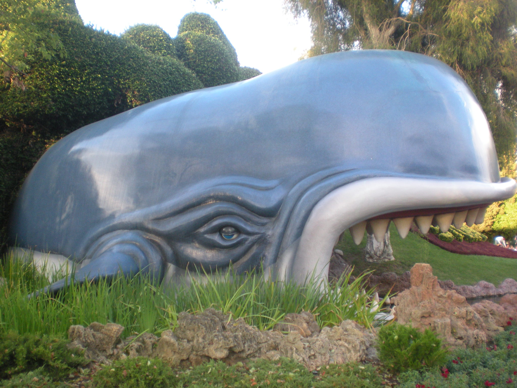 Visit my travel blog at Xcellent Trip for great travel tips about some of the most popular world destinations. This is picture from Disneyland park in Anaheim, Los Angeles (LA), California (CA) United States of America (USA).